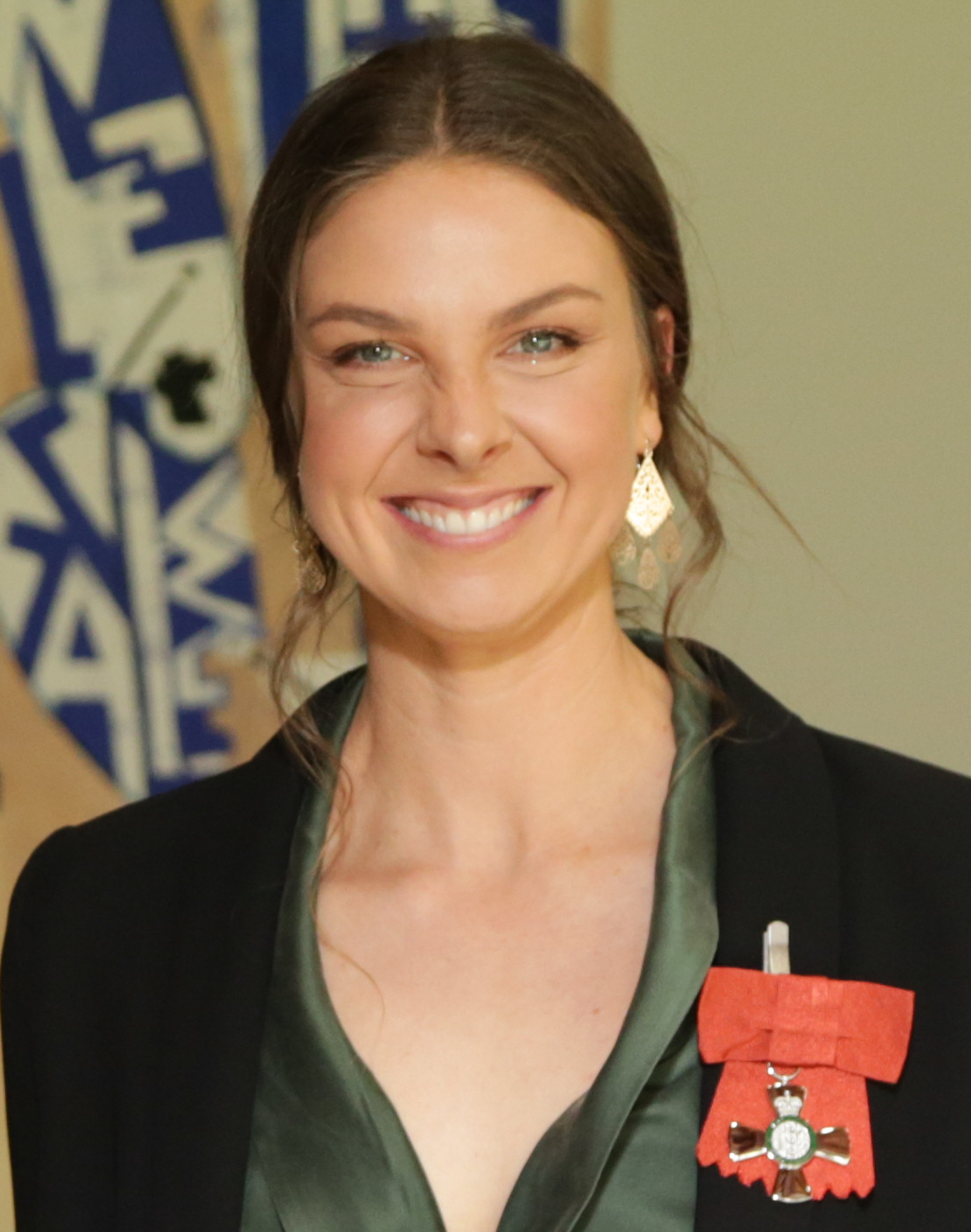 Lauren Boyle, after her investiture as MNZM, for services to swimming, at Government House, Auckland, on 23 July 2020.